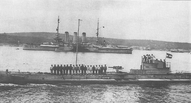 The most successful U-boat of all time, U 35, seen here under the Austro-Hungarian flag, at Pola, with an Erherzog Karl class battleship in the distance.